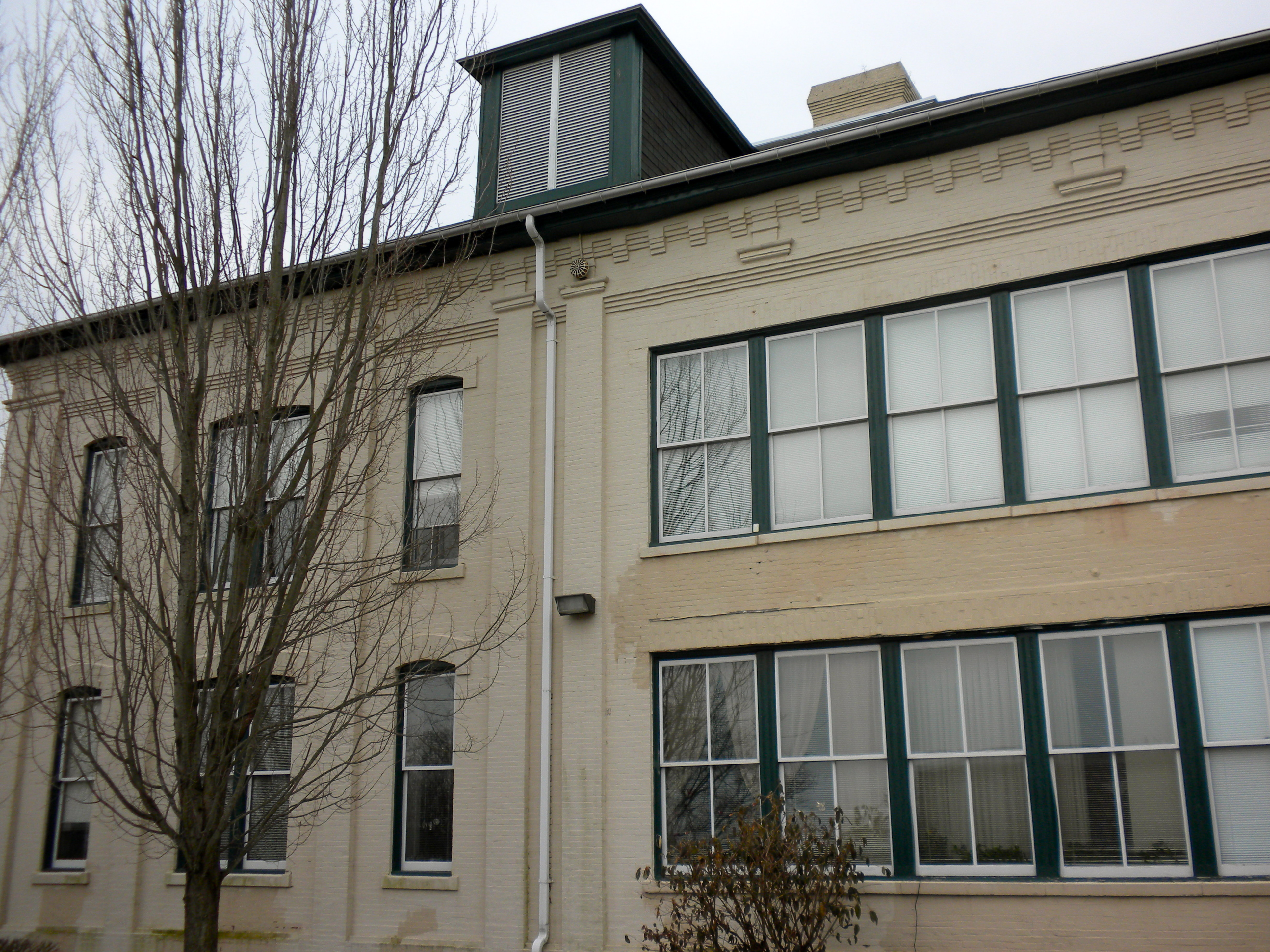 Parkesburg School in Parkesburg, PA on the NRHP since April 27, 1995, at 360 Strasburg Avenue, now converted into a retirement home